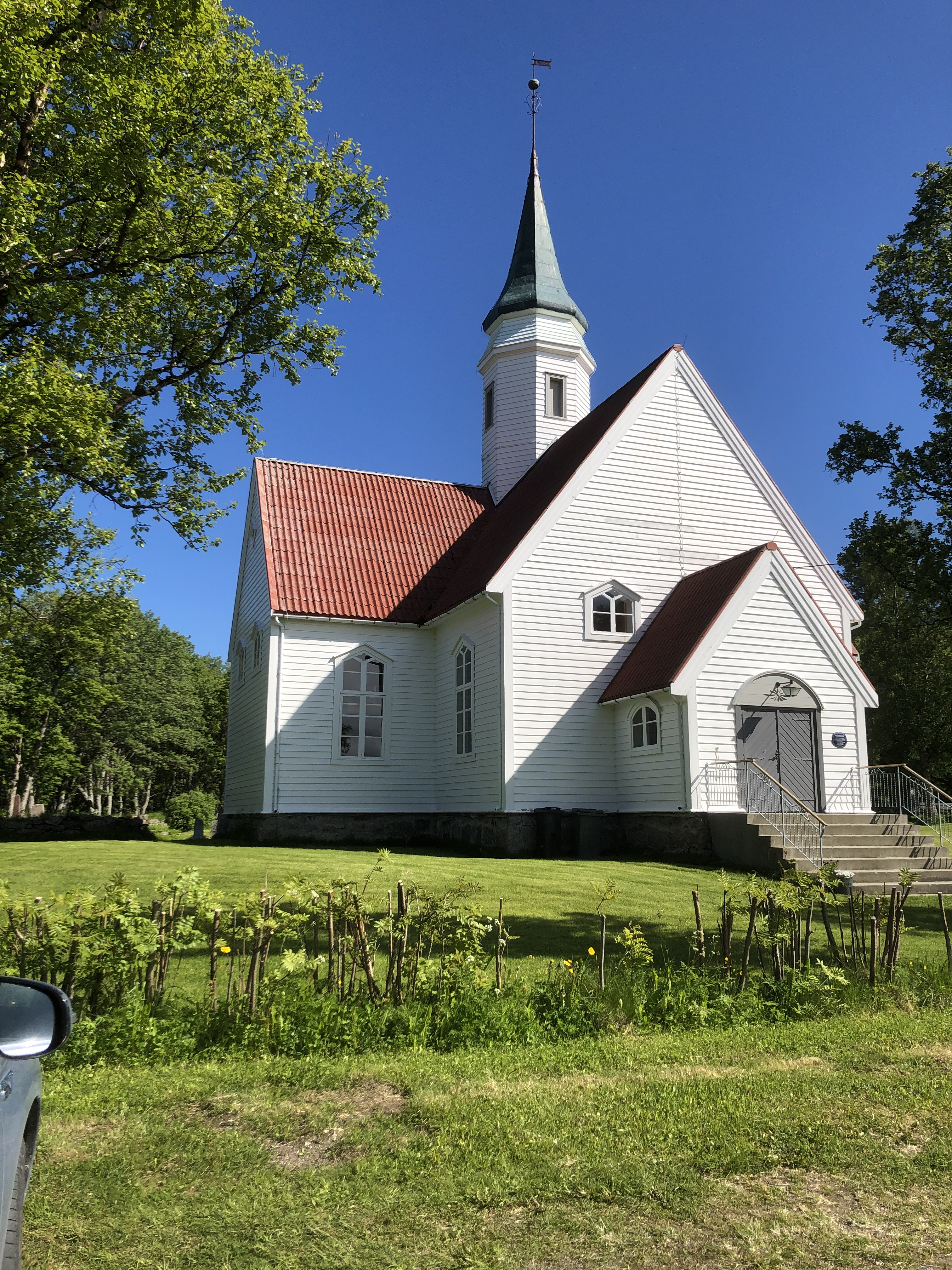 Bjarkøy Church